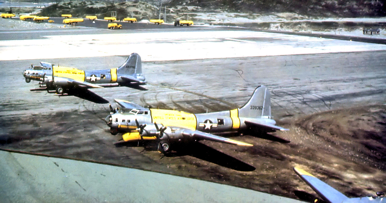 51st Rescue Squadron SB-17s Narsarsuaq Air Base Greenland B-17G-110-BO Fortress 43-39362 visible